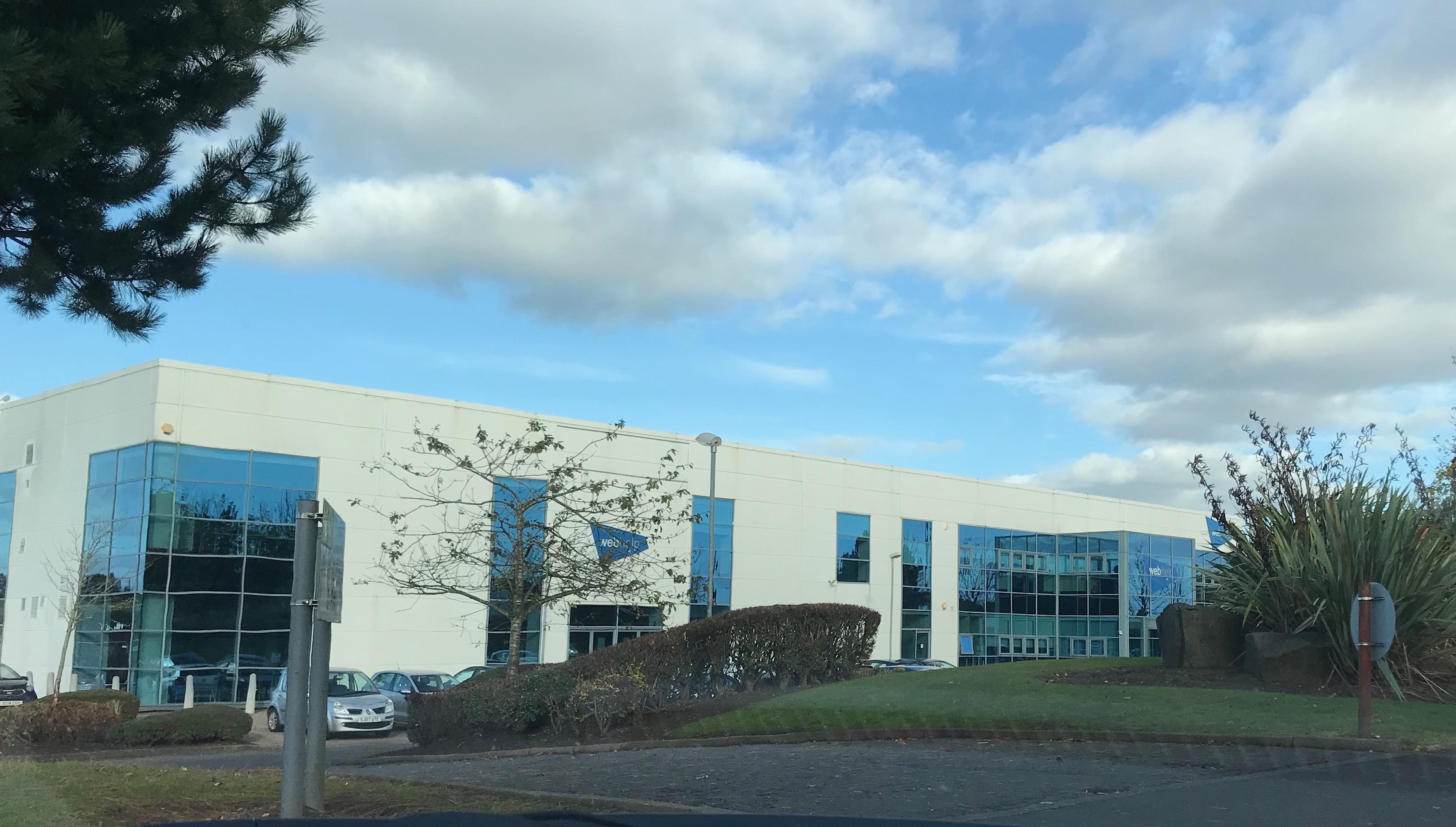 WebHelp offices in Kilmarnock, Scotland.